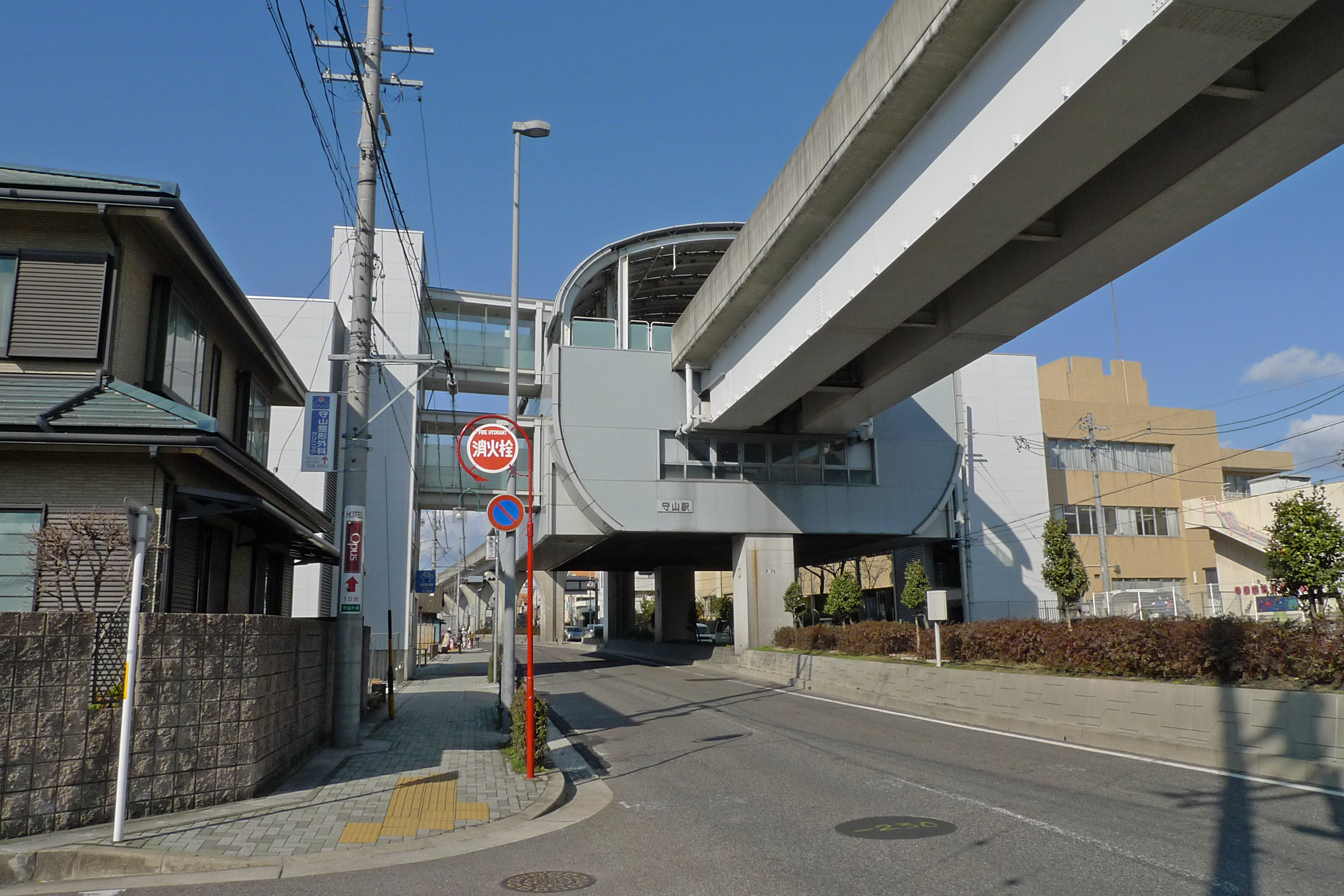 Moriyama Station on the Nagoya Guideway Bus in Moriyama-ku, Nagoya City, Aichi Prefecture, Japan